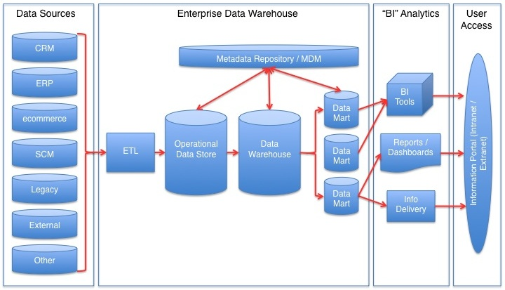 The picture shows a common reference architecture for a data warehouse.